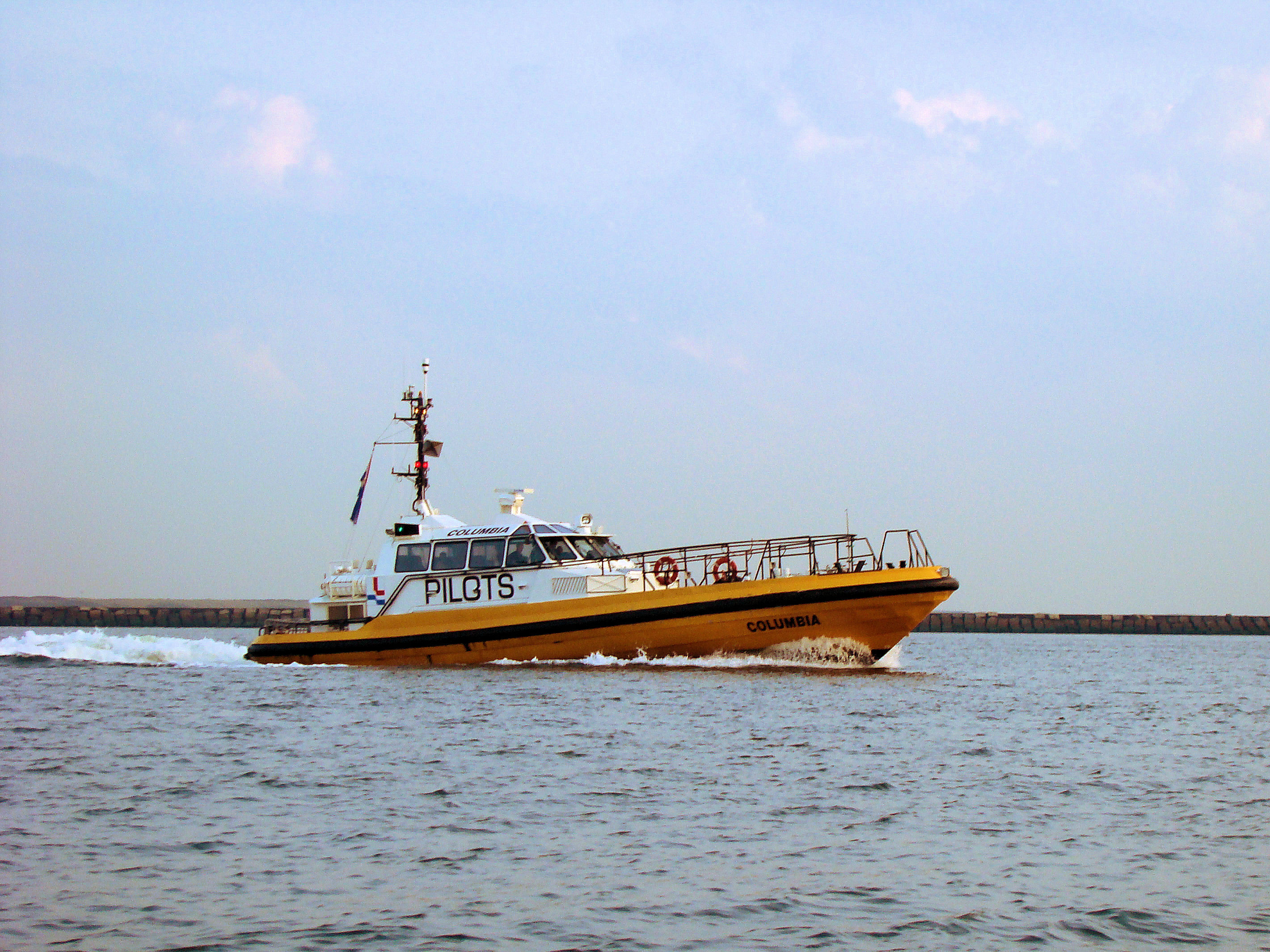 Pilot boat leaving IJmuiden harbor to drop pilot on a north-sea vessel.